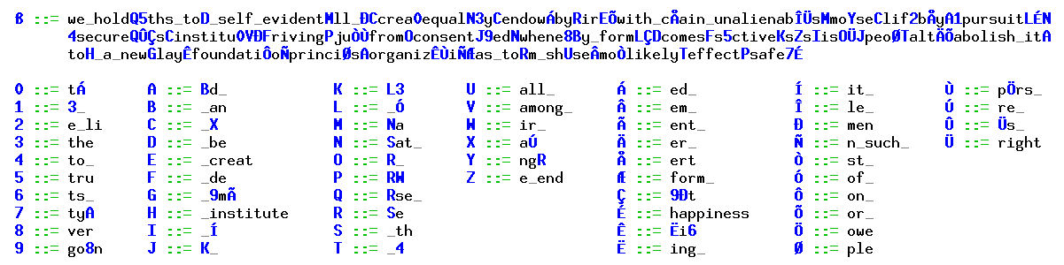 Straight-line grammar (with start symbol ß) for the first sentence ("We hold ... Safety and Happiness") of the second paragraph of the United States Declaration of Independence (Dunlap Broadside version). For simplicity, all punctuation was removed from the sentence, only lower-case letters were used, and space was indicated by "_". The choice of nonterminal symbols (single-character symbols, colored blue in the picture) and their right hand sides was inspired by inspection of a gzip-compression of the sentence.